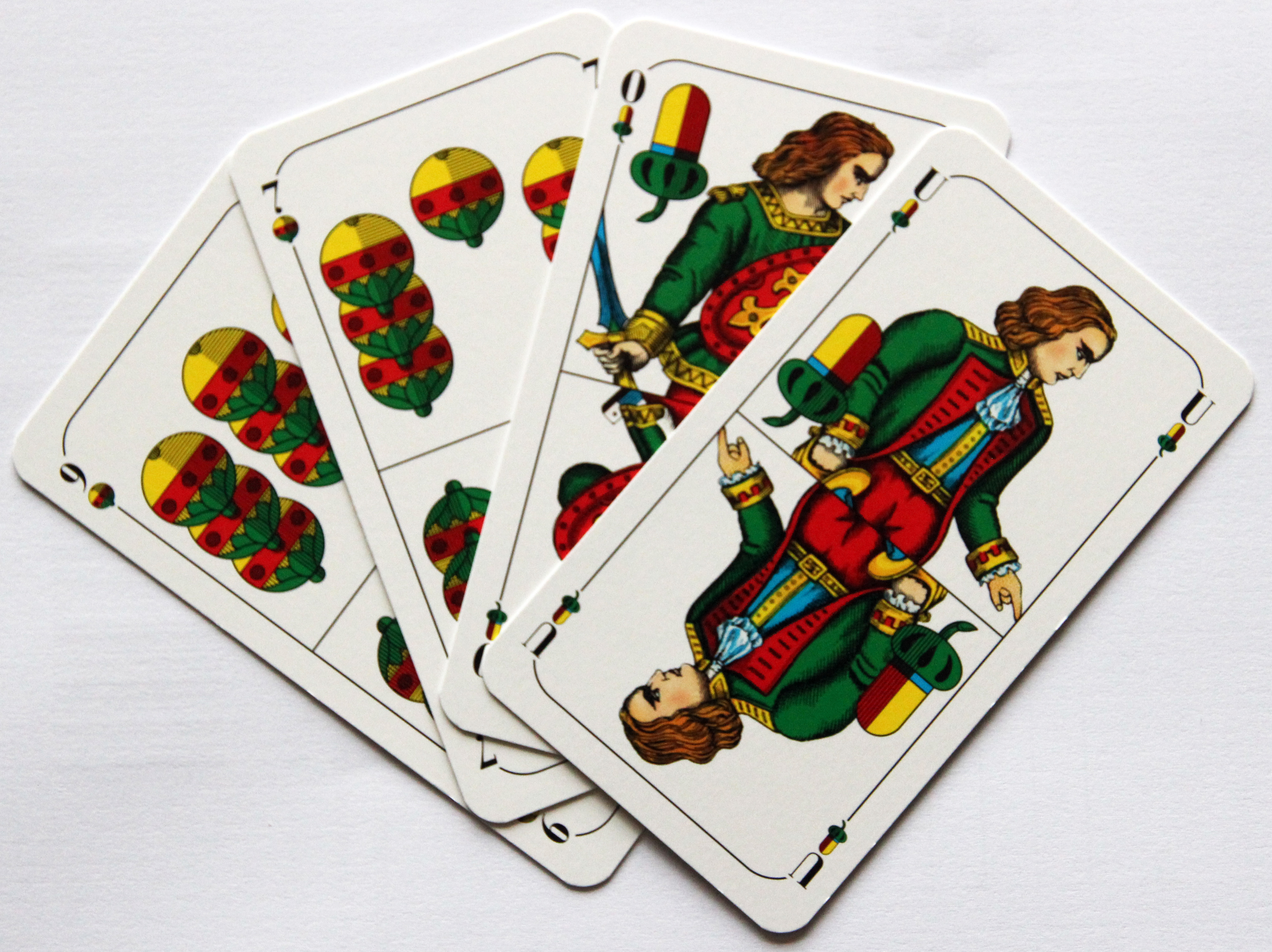 The permanent trumps in the Bavarian card game of Ramsen - Dallmutz (9 of Bells), Belli (7 of Bells), Big Bube (Ober of Acorns) and Little Bube (Unter of Acorns)